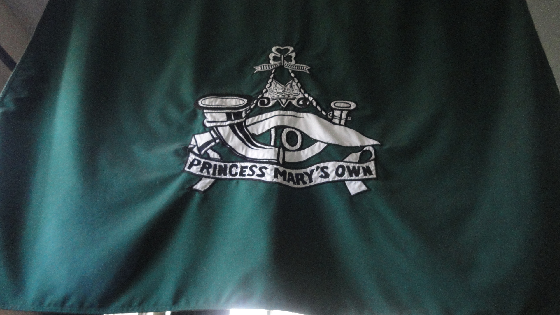 Princess Mary's Own Owner